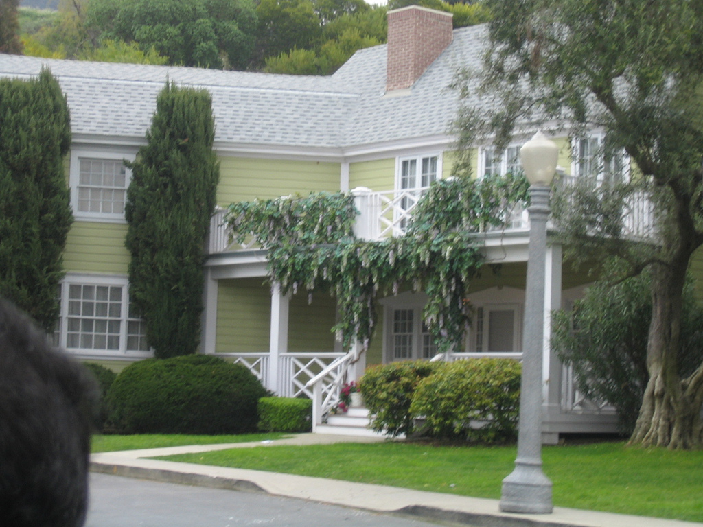 Drew House. Set of Desperate Housewives. Picture taken in Universal Studios, Hollywood, CA.